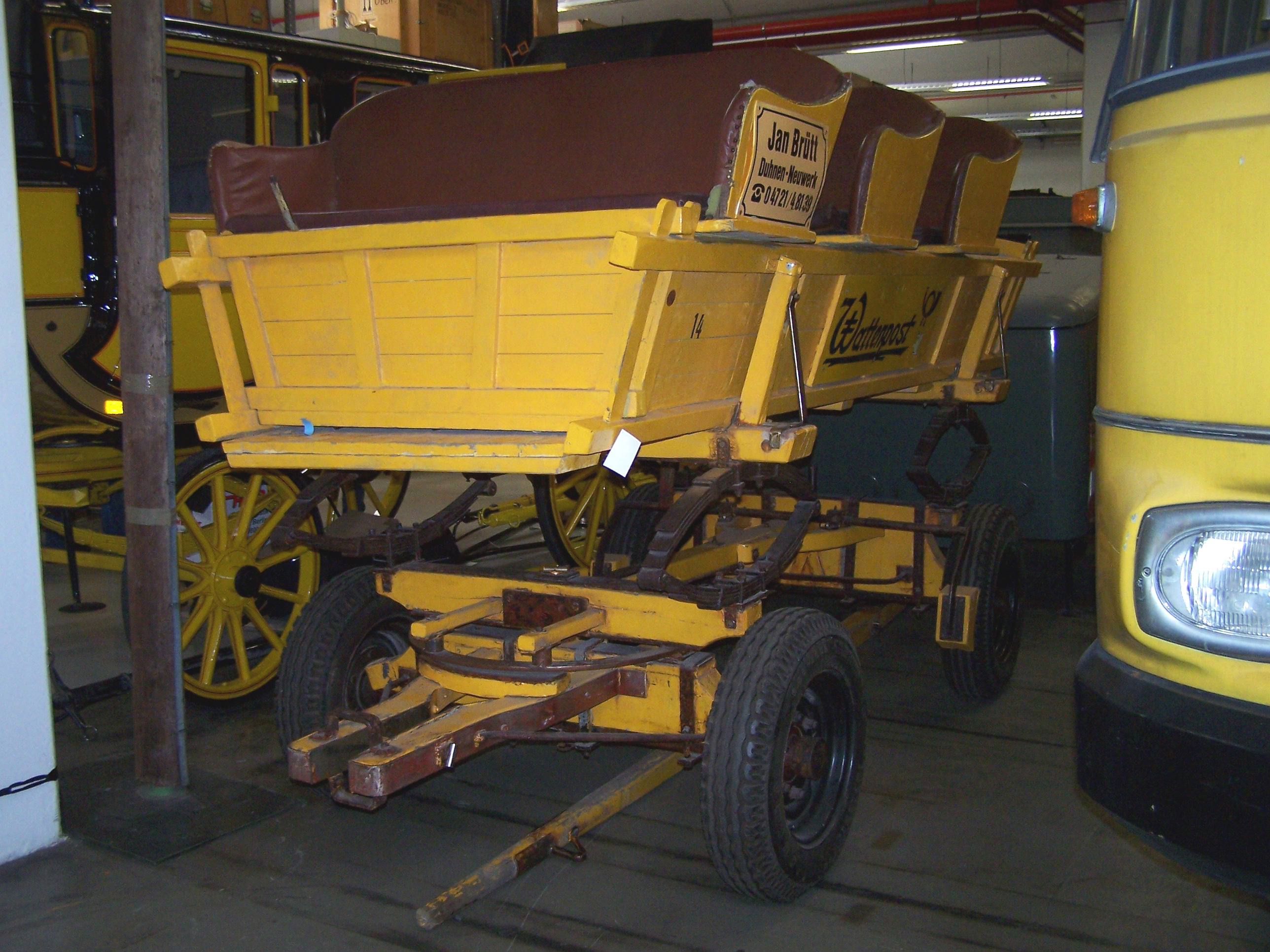 mudflat carriage (Wattwagen) in the depot of the Museum for communication Frankfurt am Main in Heusenstamm